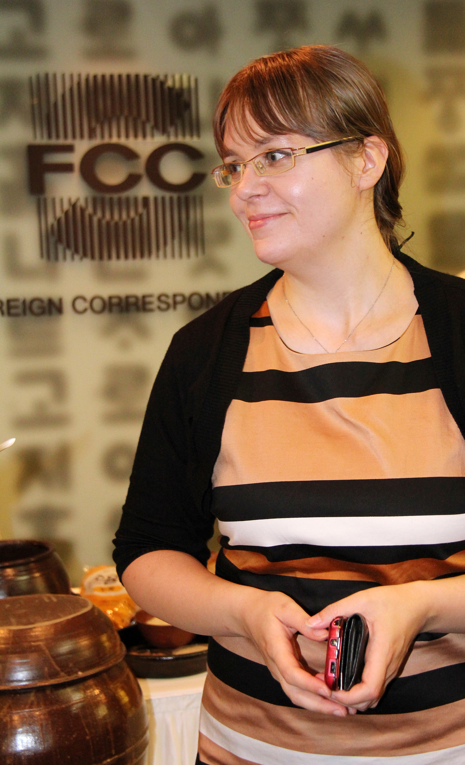 Makgeolli Sommelier. A brief lecture about the characteristics of makgeolli at a seminar on August 30 for foreign correspondents stationed in Seoul. Ms. Taru Salminen